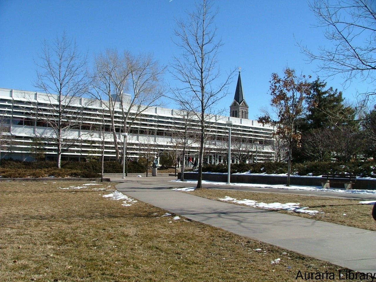 Picture of Auraria Library. I took this picture. I declare this picture to be public domain.